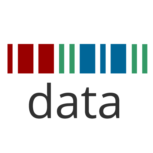 Logo proposal for wikidata. The central idea was to have the logo represent: Its about data Its a wiki Its a WMF project. The barcode is an encoded data graphic that everyone with a modern lifestyle recognizes. The bars spell out "wiki" in morse code and is valid for any language. The colors are from the WMF logo